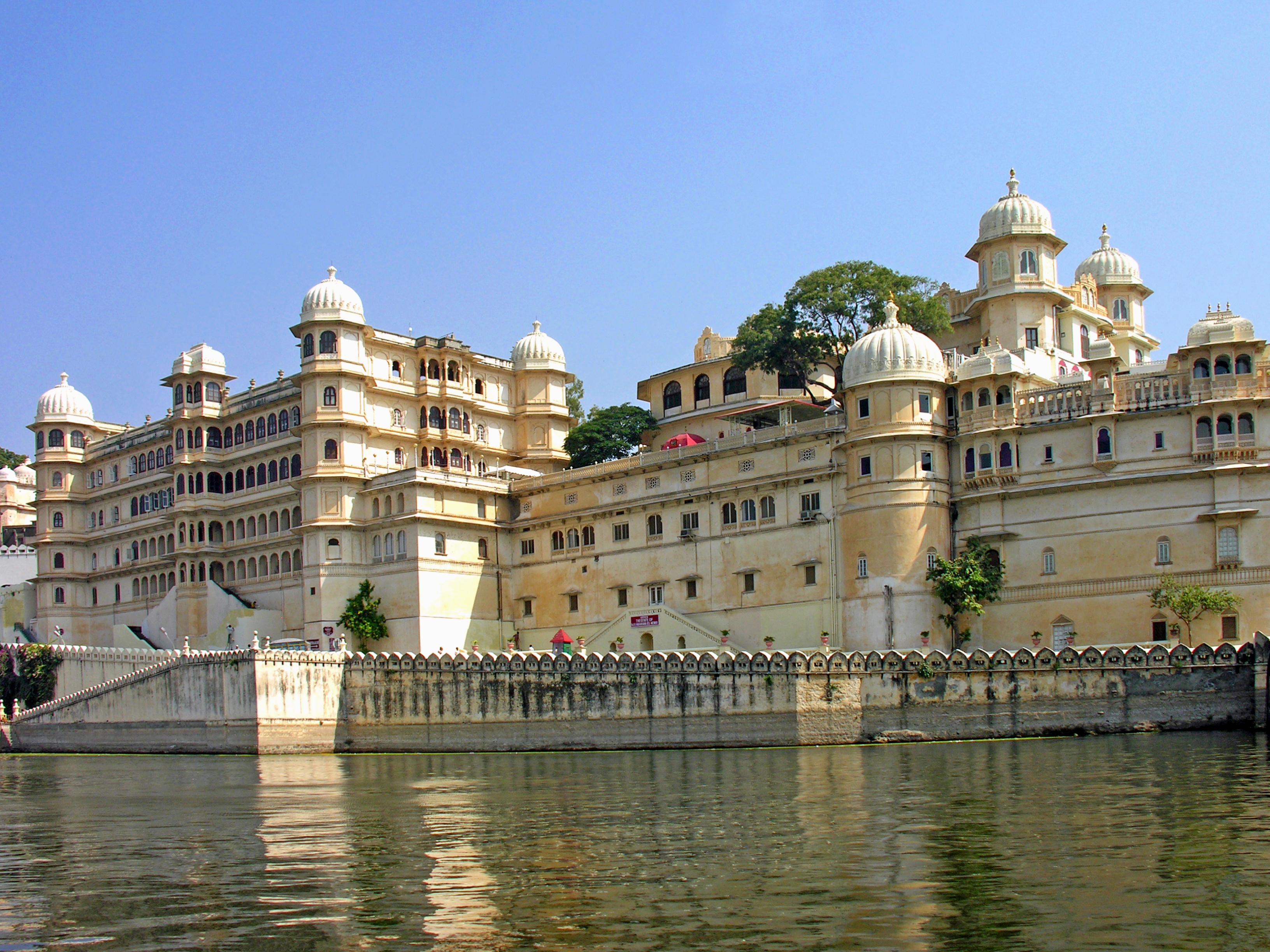 P City Palace of Udaipur is a palace complex, in the Indian state Rajasthan. It was built by the Maharana Udai Mirza Singh as the capital of the Sisodia Rajput clan in 1559, after he moved from Chittor. It is located on the east bank of the Lake Pichola and has several palaces built within its complex. Udaipur was the historic capital of the former kingdom of Mewar in the Rajputana Agency and its last capital.